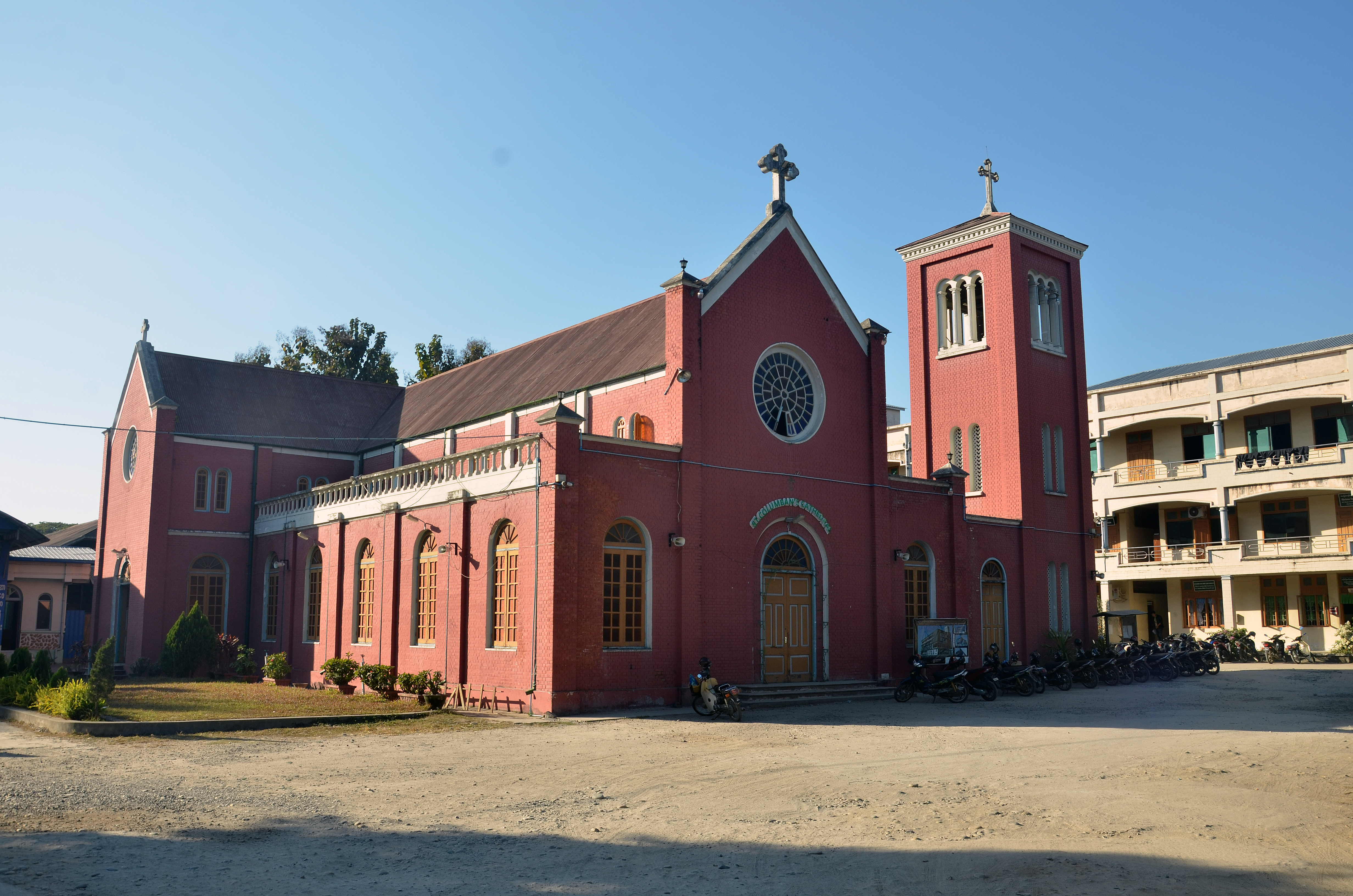 This is an image of St. Columban's Catholic Cathedral, in Myitkyina, Kachin State, Myanmar